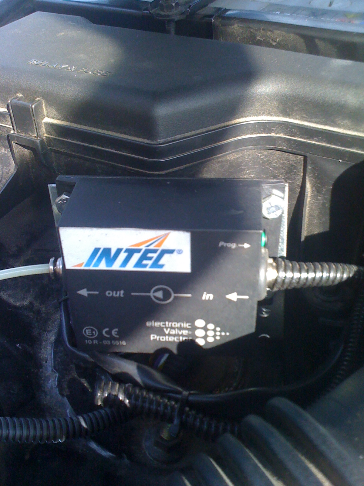 Electronic valve protector fluid system